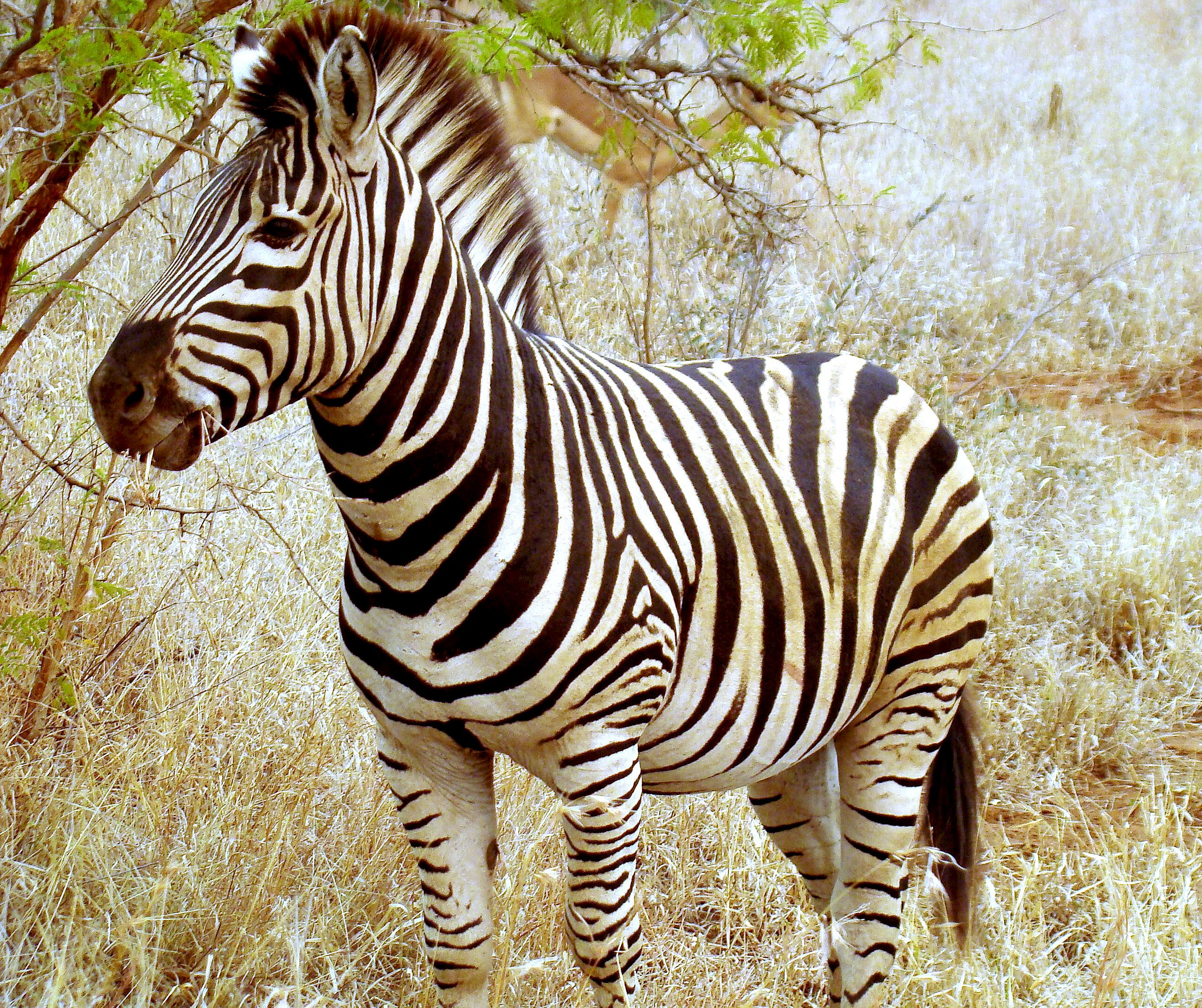 A beautiful zebra, photographed in Sabi Sand Private Game Reserve, South Africa